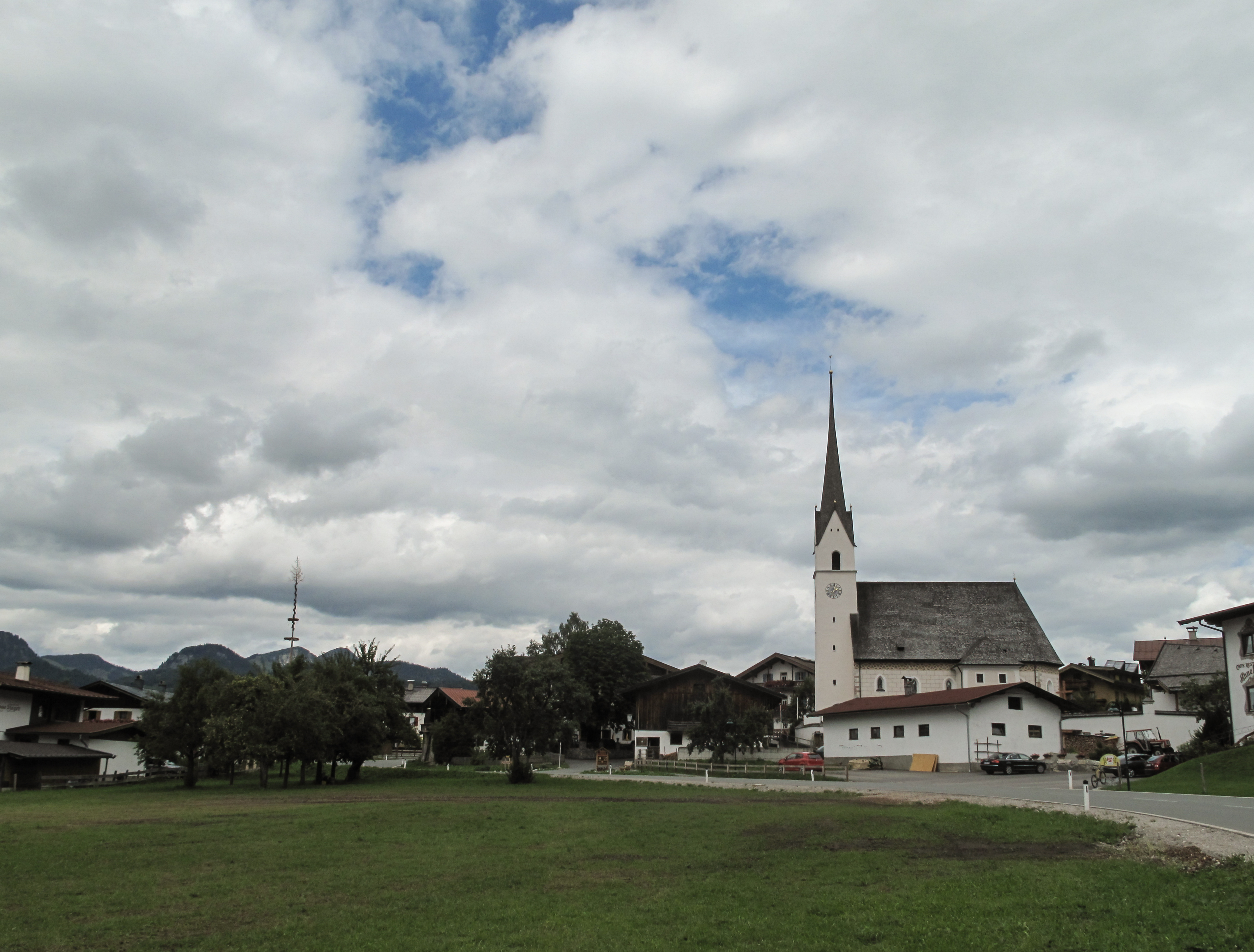 Schwendt, church: die Sankt Ägidiuskirche